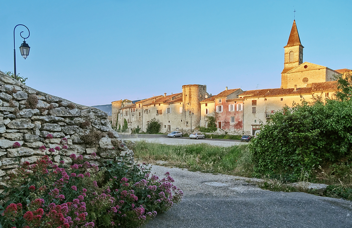 TAULIGNAN is a circular medieval walled village in the "Drôme Provençal".